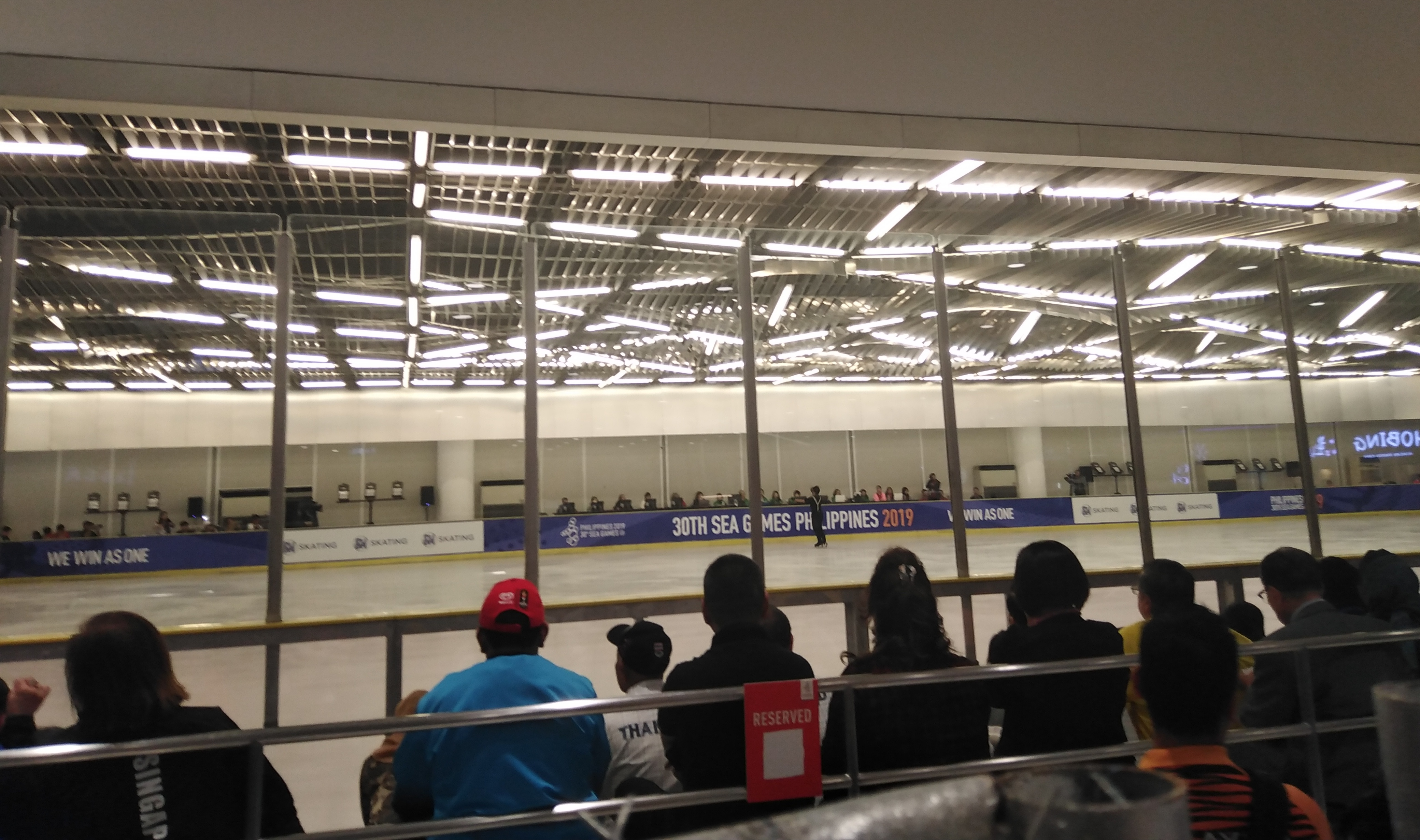 The SM Megamall Ice Rink, the venue for the figure skating events at the 2019 Southeast Asian Games.